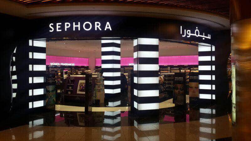 Sephora Store Front in the Dalma Mall